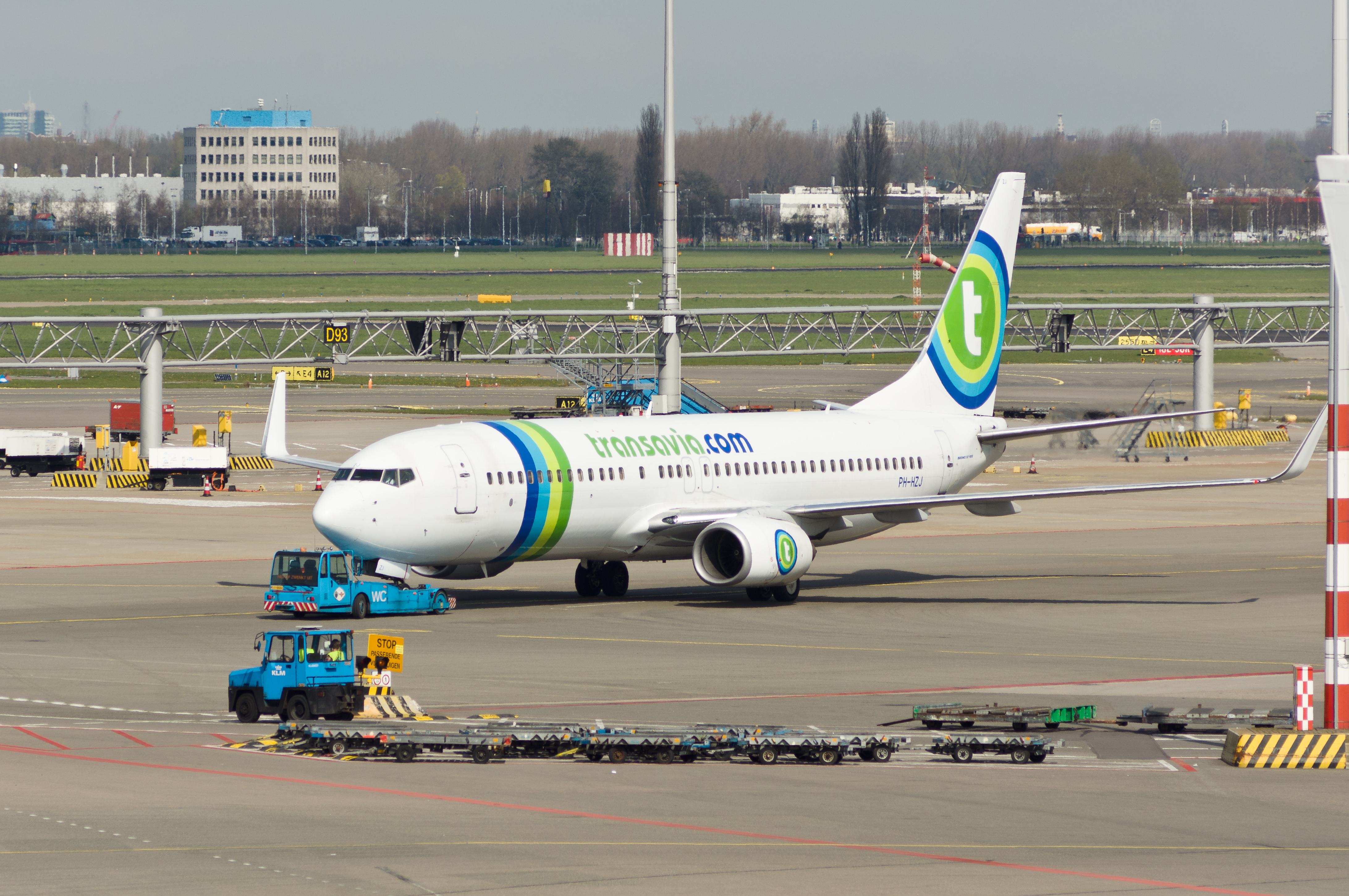 Transavia Airlines Boeing 737-8K2, registration PH-HZJ at Amsterdam Schiphol.